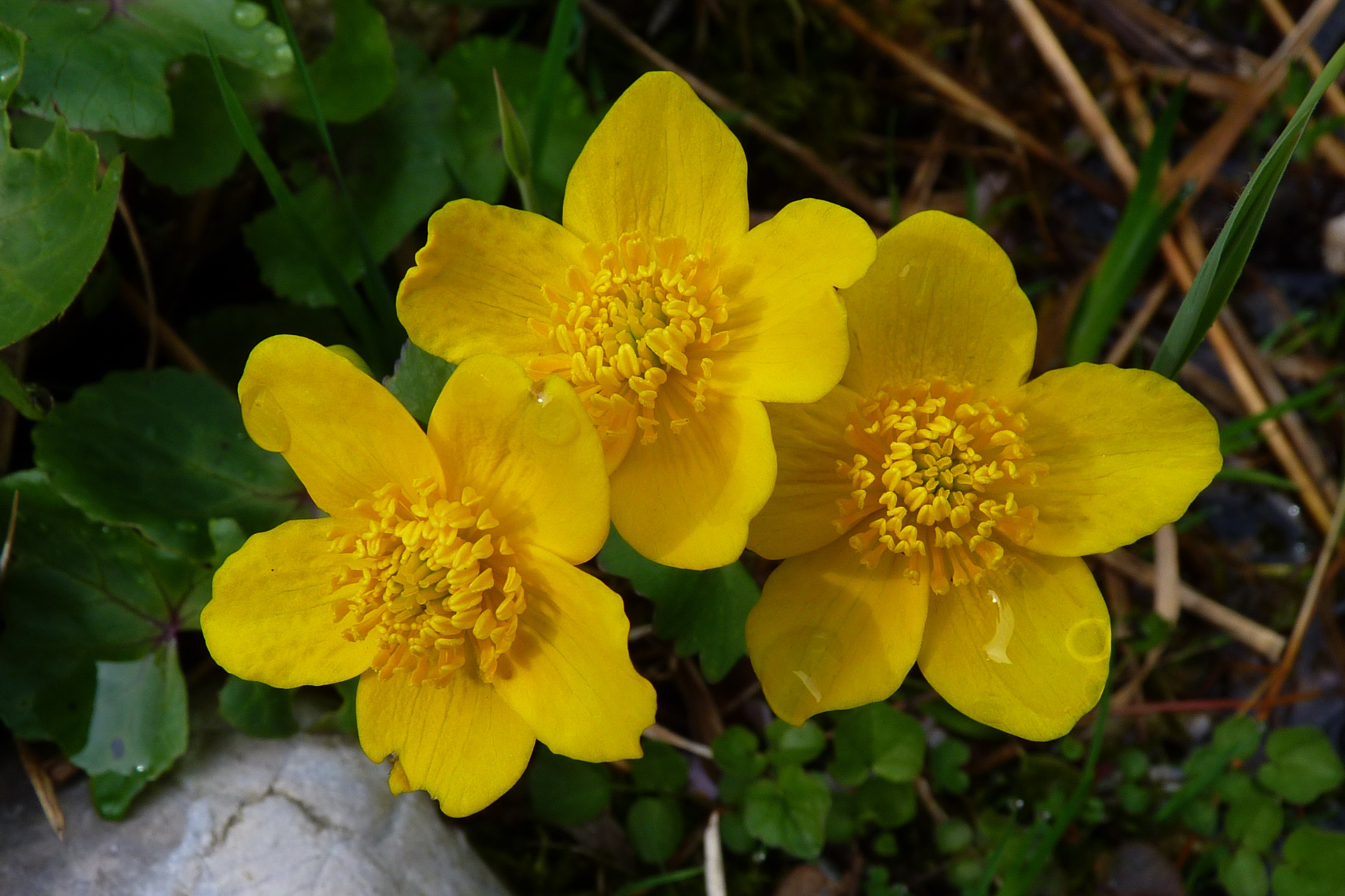 Kingcup